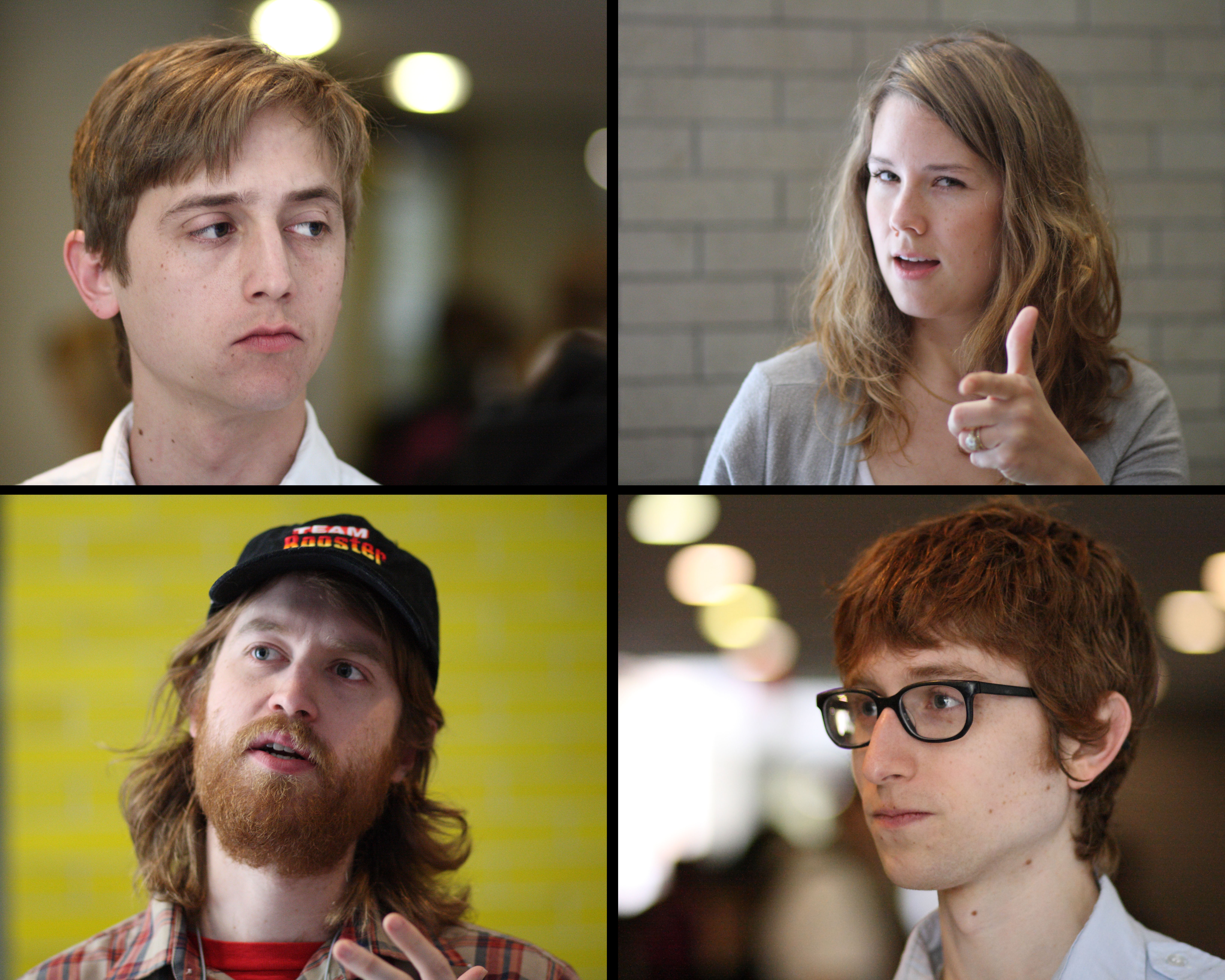 The Gregory Brothers at ROFLCon II. Top row: Evan Gregory and Sarah Fullen Gregory; Bottom row: Andrew Rose Gregory and Michael Gregory.